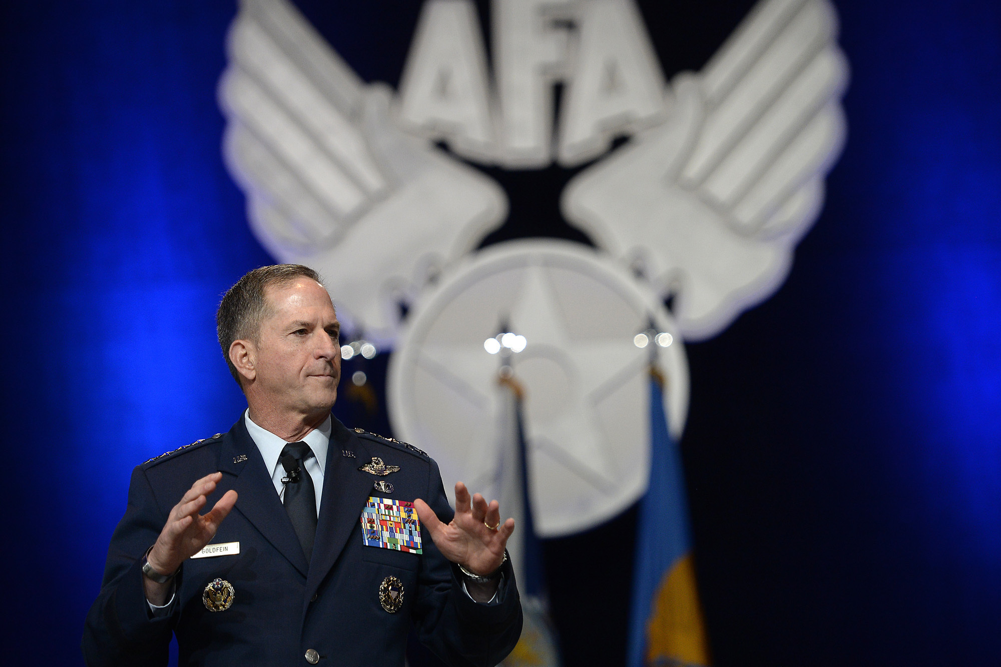 Air Force Chief of Staff Gen. Dave Goldfein gives his first "Air Force Update," during the Air Force Association's Air, Space and Cyber Conference in National Harbor, Md., Sept. 20, 2016. The 21st chief of staff announced his three focus areas: to revitalize squadrons, develop joint leaders and teams, and improve command and control. (U.S. Air Force photo/Scott M. Ash)